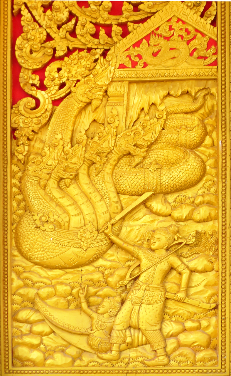 This door panel shows Sinxay and Sangthong fighting Nak Valoonarat, the king of the naks who has married his cousin, Sidachan, daughter of Soumountha. Sinxay won three games of chess against Nak Valoonarat, betting his weapons against Nak Valoonarat's kingdom. After winning three games in a row Sinxay said he would settle for taking his wife, Sidachan, which infuriated Nak Valoonarat who demanded all his nam followers go into battle with him against Sinxay. Eventually Sinxay decided he needed to ask Phanya Kout to bring his followers to fight the naks because as reptiles Sinxay thought it was beneath his dignity to be fighting them. There are beautiful illustrations of this inside the sim at Wat Chaisi.